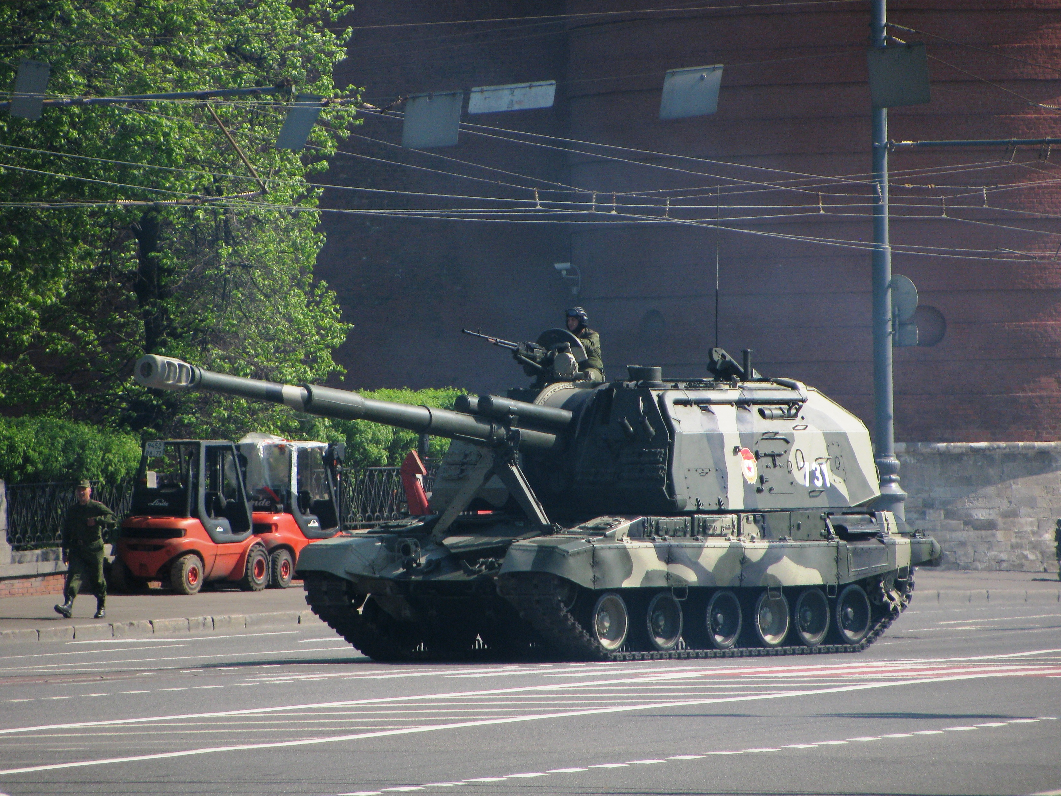 2S19 Msta-S at the Moscow Victory Parade 2010.